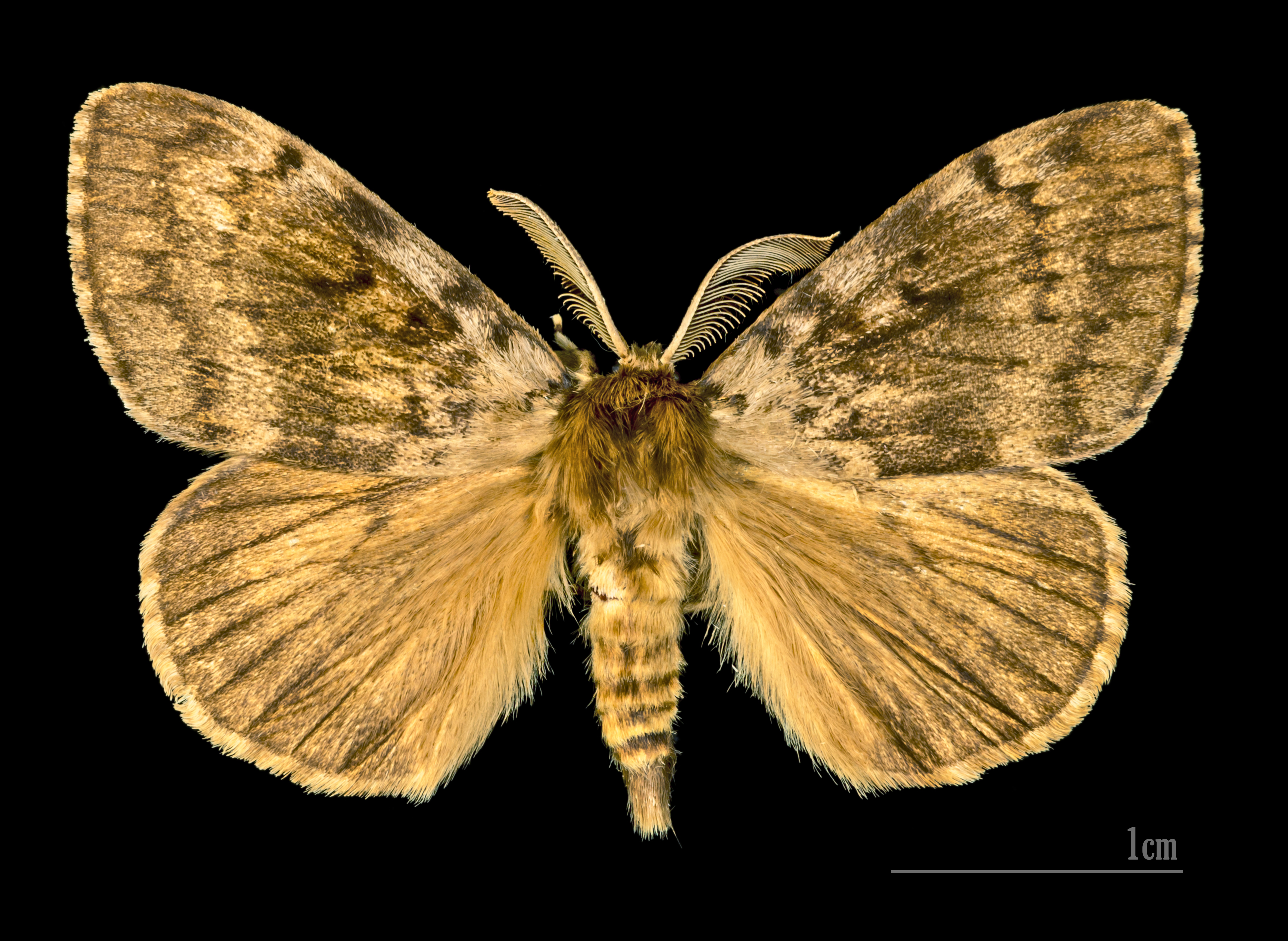 Gypsy Moth. Dorsal side